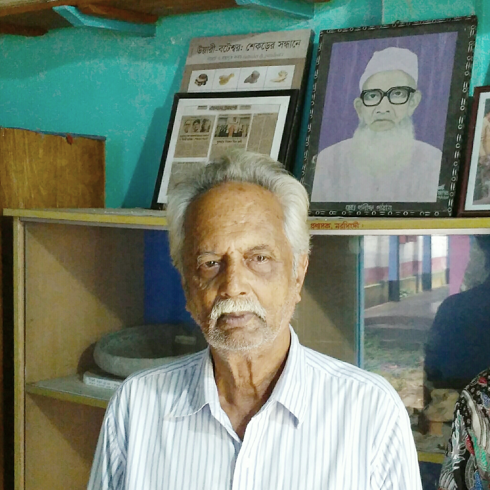 Habibulla Pathan, An archaeological artifacts collector of Wari - Bateshwar ruins, Bangladesh, in his personal archaeological museum and library at Bateshwar, Narsingdi. Behind him there is a binding image of his father Hanif Pathan, who was the pioneer of Wari - Bateshwar archaeological ruins.